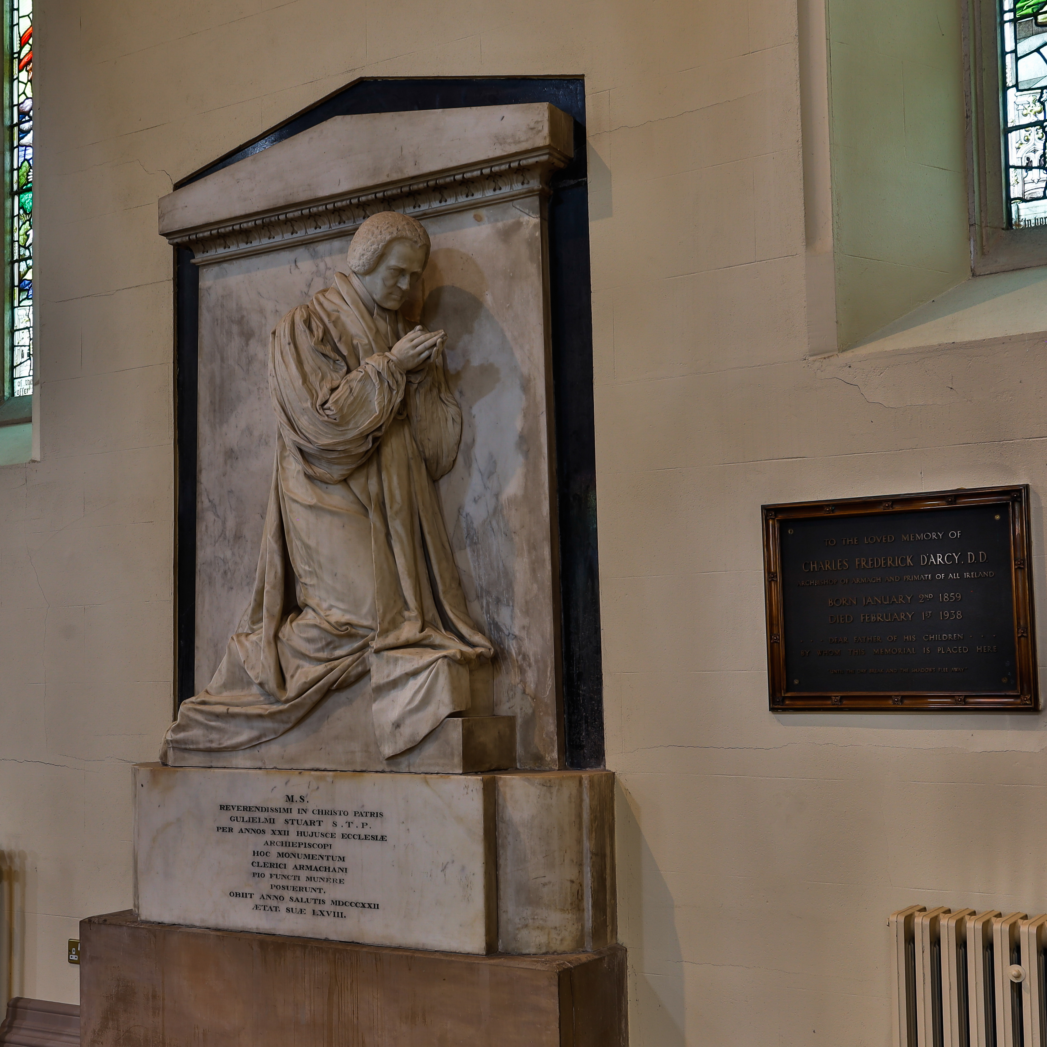 Monument of Archbishop William Stuart (1755–1822) in a kneeling pose in prayer, signed by Sir Francis Chantrey. The sculpture is located in the north aisle between two windows on a plain plinth with following inscription: M.S. REVERENDISSIMI IN CHRISTO PATRIS GULIELMI STUART S.T.P. PER ANNOS XXII HUJUSCE ECCLESIÆ ARCHIEPISCOPI HOC MONUMENTUM CLERICI ARMACHANI PIO FUNCTI MUNERE POSUERUNT OBIIT ANNO SALUTIS MDCCCXXII ÆTAT. SUÆ LXVIII. (See Kevin V. Mulligan, The Buildings of Ireland: South Ulster, p. 105.) Wikidata has entry Q2942532 with data related to this item.